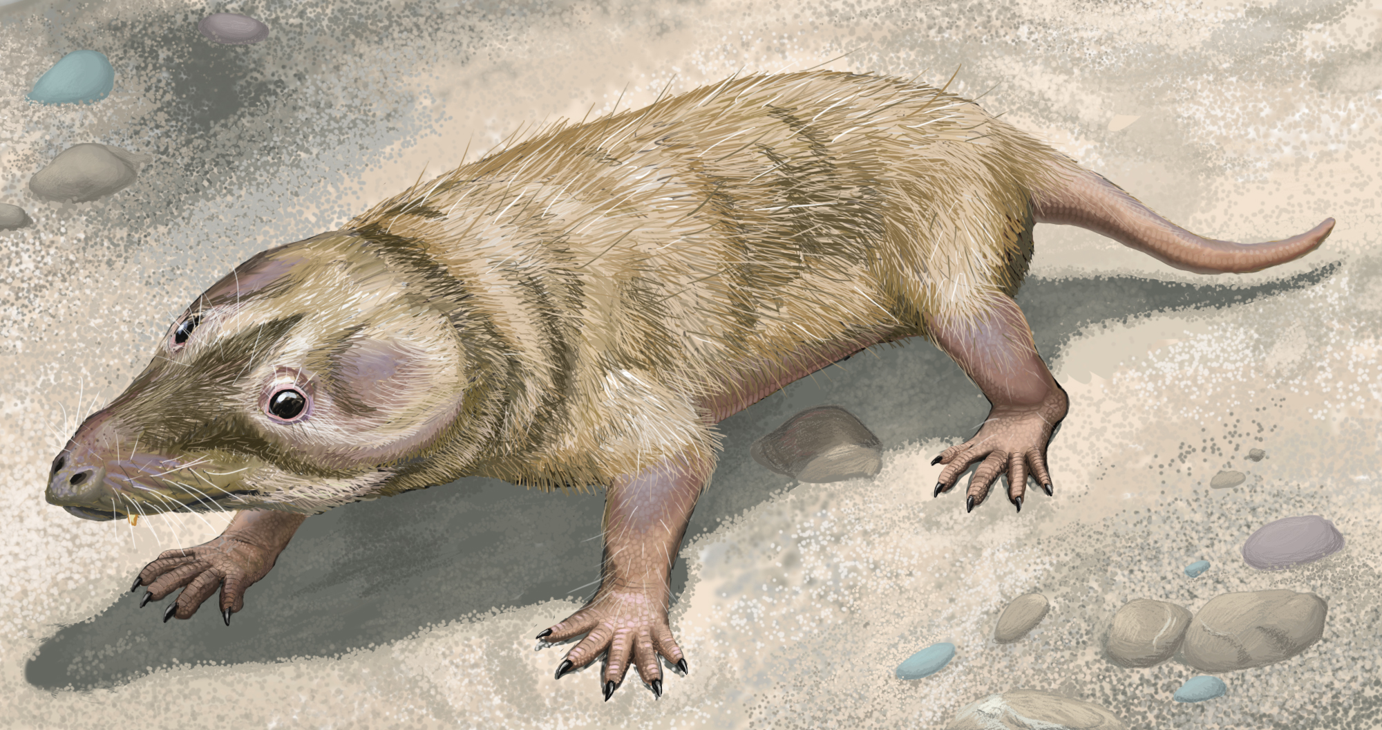 Life restoration of Brasilitherium riograndensis. Based on figures 5 and 6 of "Evolution of the Brasilodontidae (Cynodontia-Eucynodontia)" by José F. Bonaparte (Historical Biology in press).